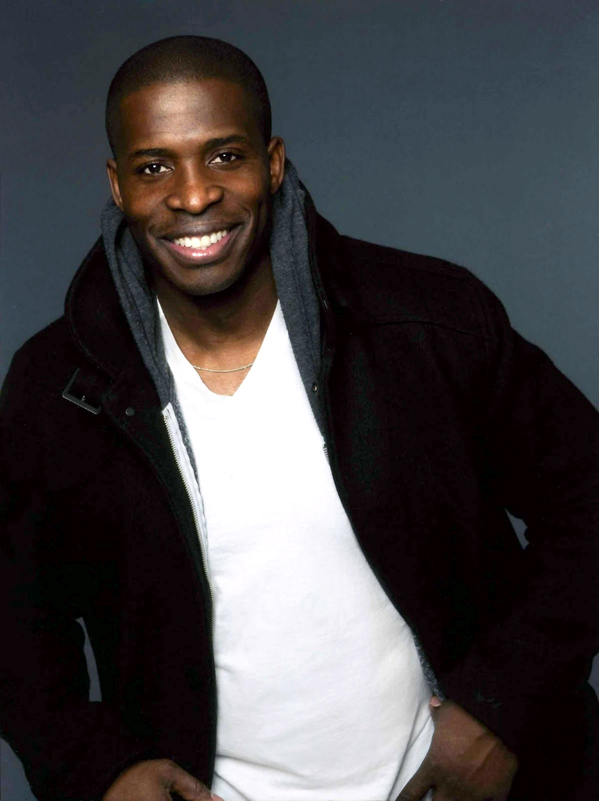 Comedian Godfrey. Publicity photo by his management company, ROAR.